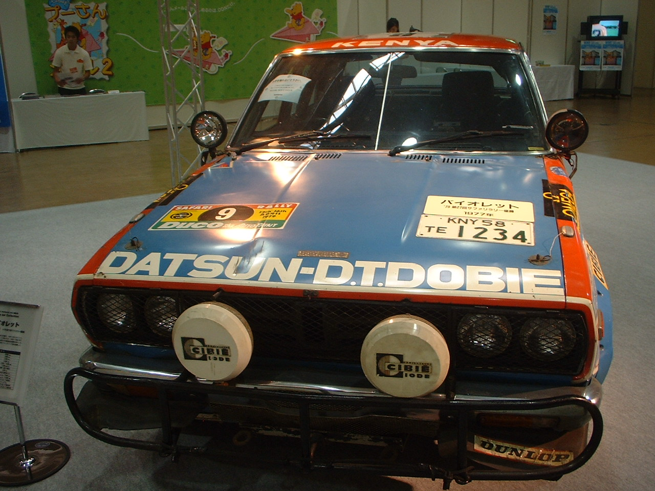 Nissan Violet ( A10 ) Gr.4rallycar